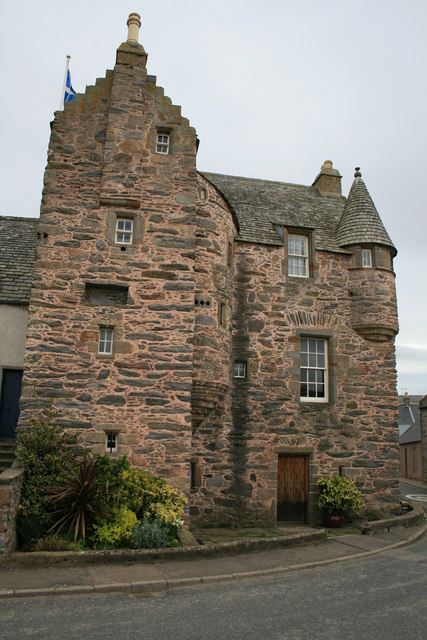 Fordyce Castle A close up of the castle at Fordyce